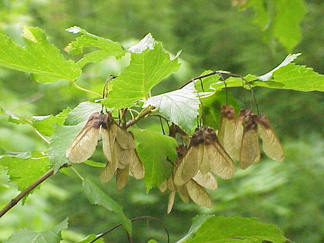 Species: Acer tataricum Family: Aceraceae Image No. 1